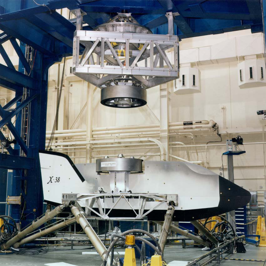 Testing of X-38 docking system on the Six-Degree-of-Freedom Dynamic Test System (SDTS) in the Space Vehicle Mockup Facility, at Johnson Space Center. The X-38 pictured is just a cutout.